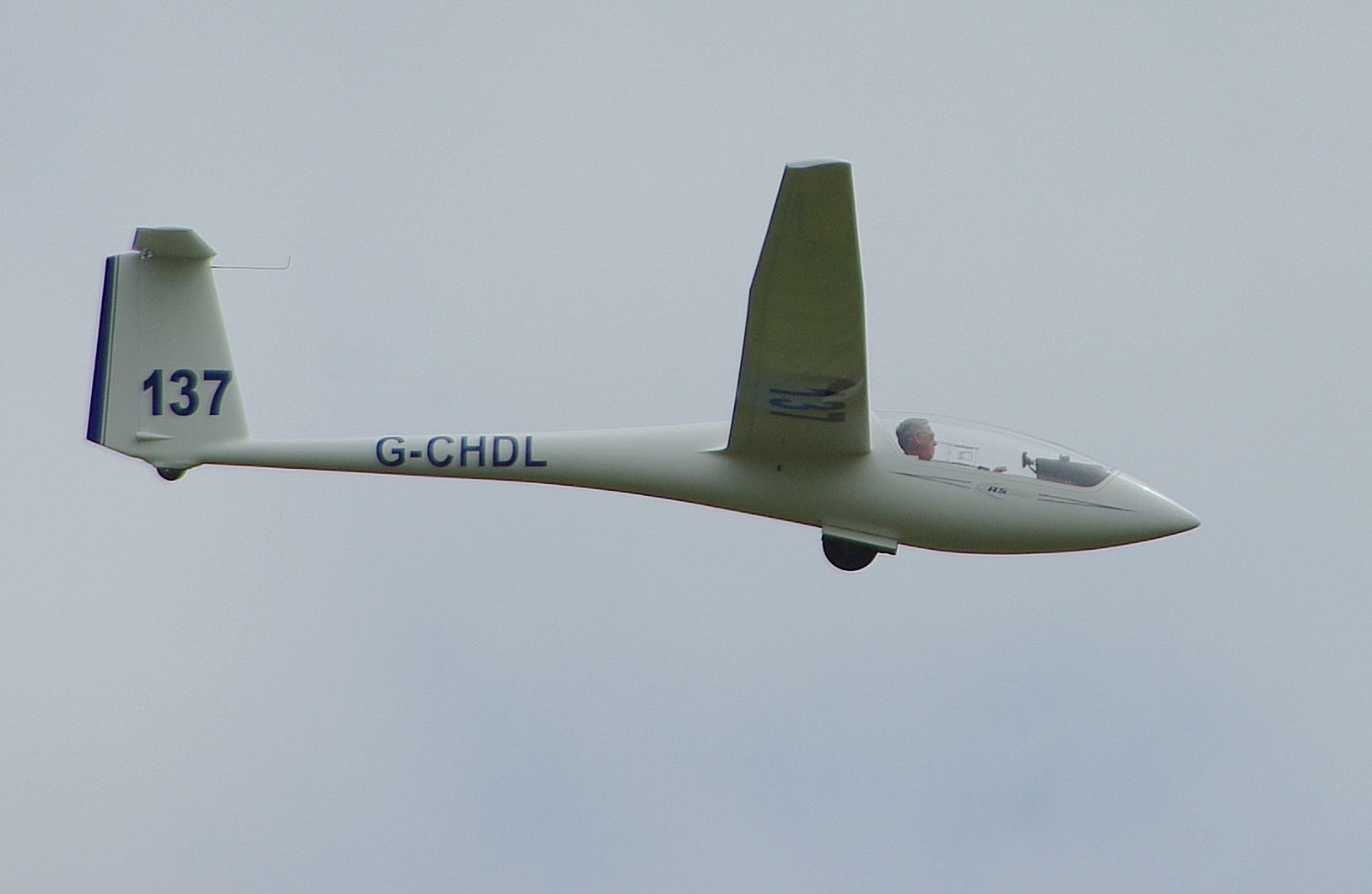 Schleicher ASW20 at the Vintage Glider Rally, Camphill, 24 June 2011